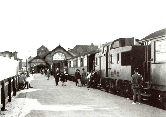 Platforms at Lygten Station in Copenhagen, Denmark